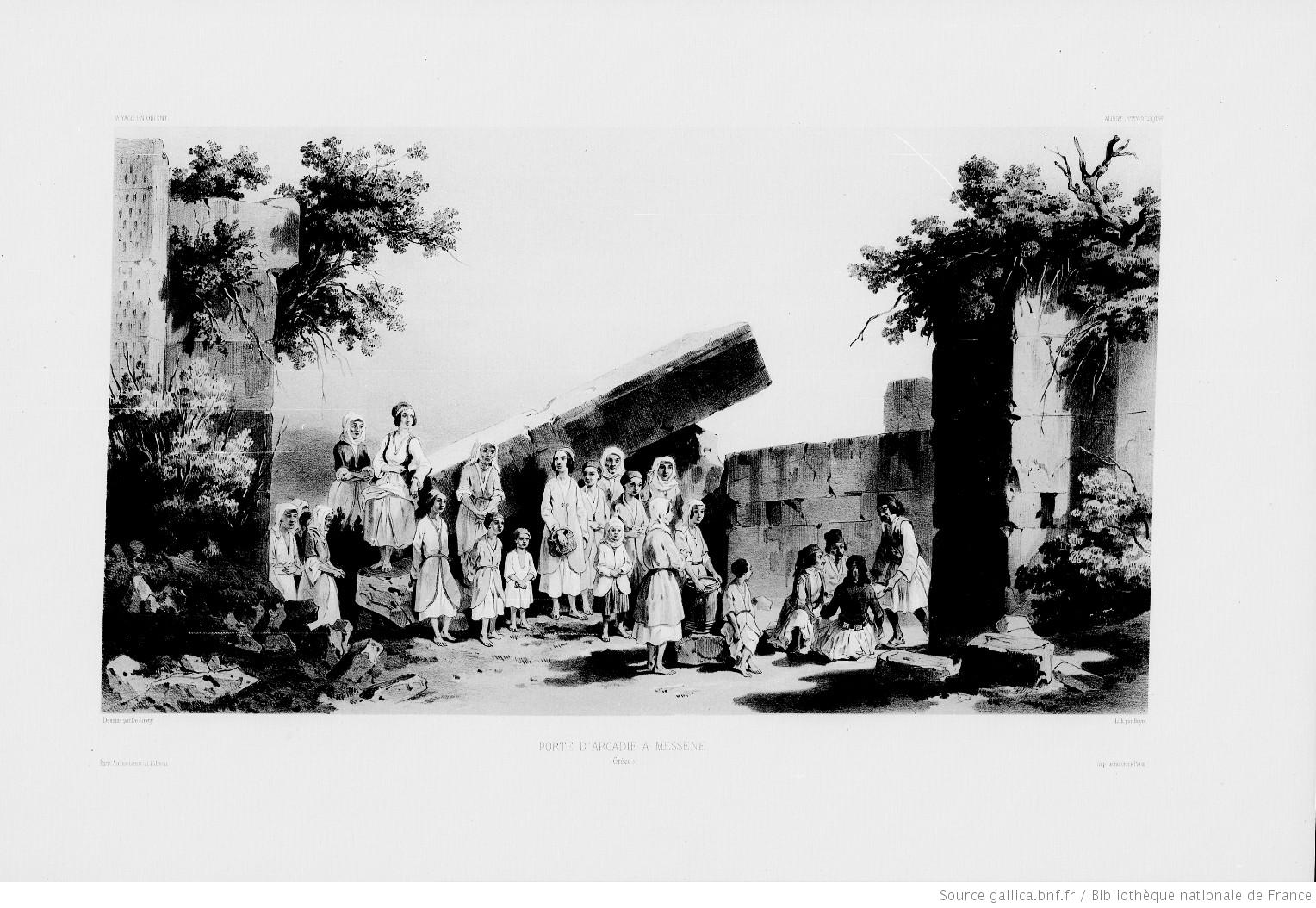 Acient Messini in 1847